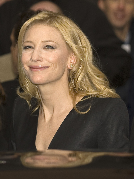 Actress Cate Blanchett leaving the press conference for "The Good German" 57. Berlinale, Hyatt Hotel at Potsdamer Platz